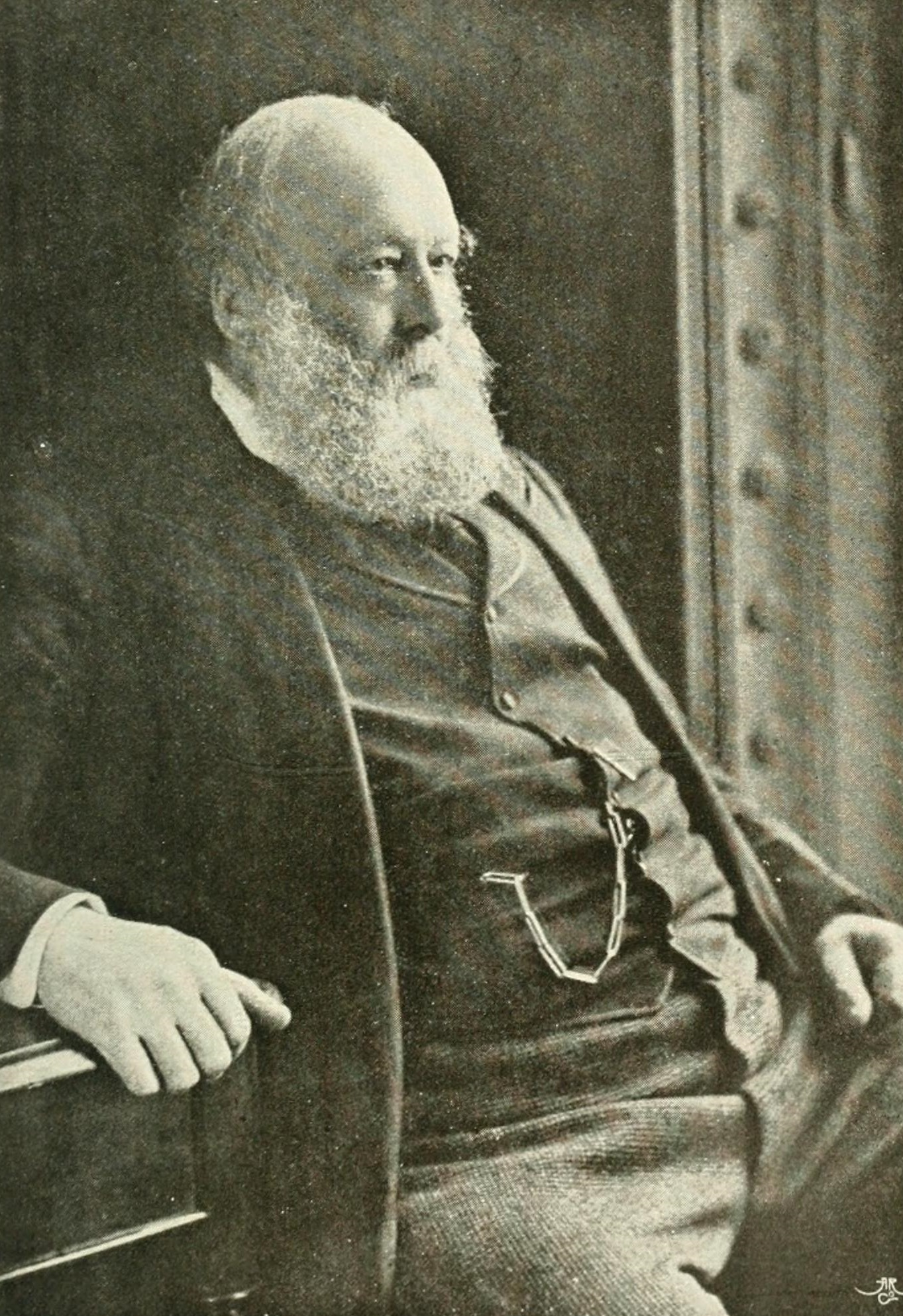 Portrait of Lord Salisbury